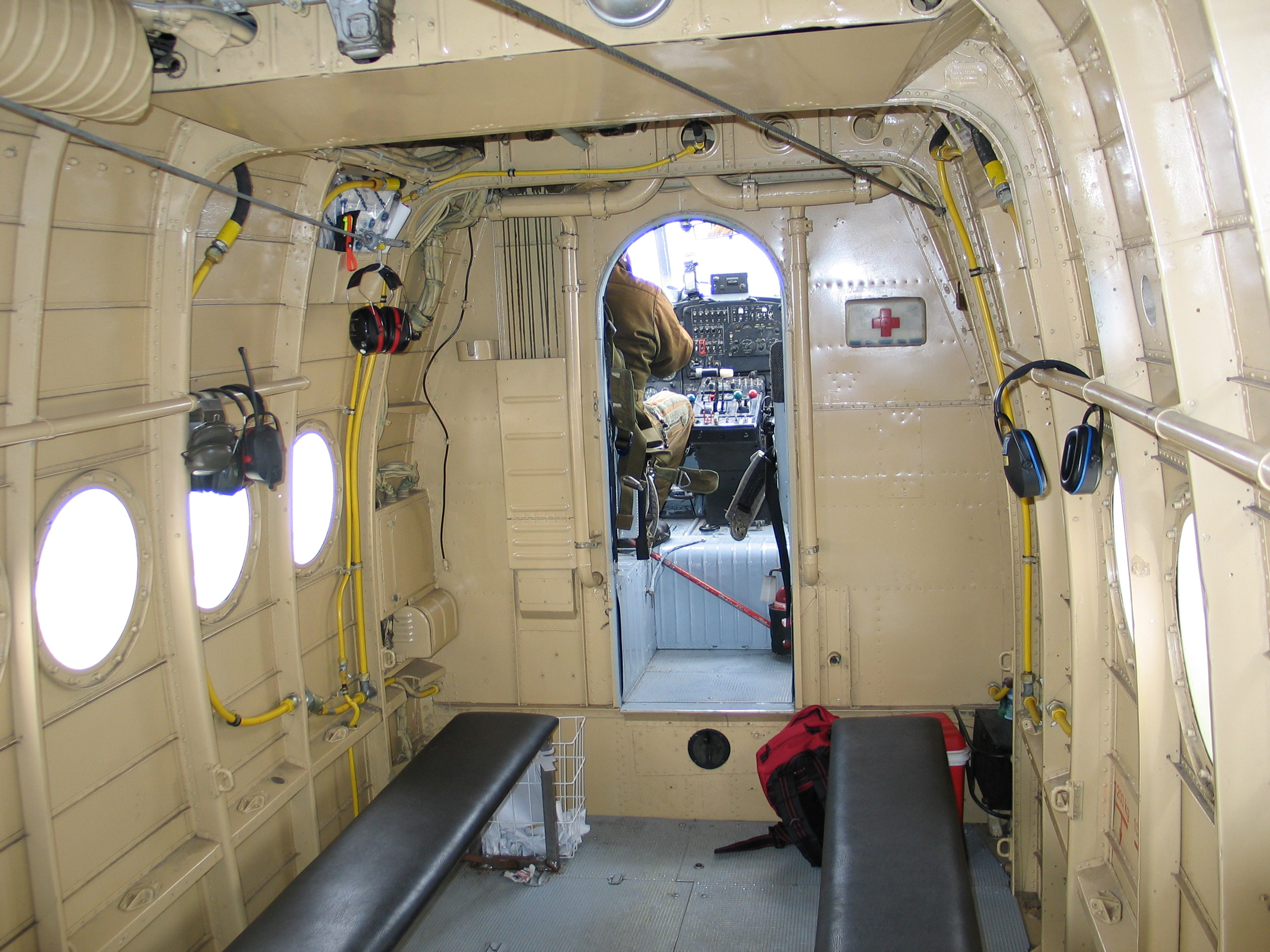 Antonov An-2 interior, facing cockpit